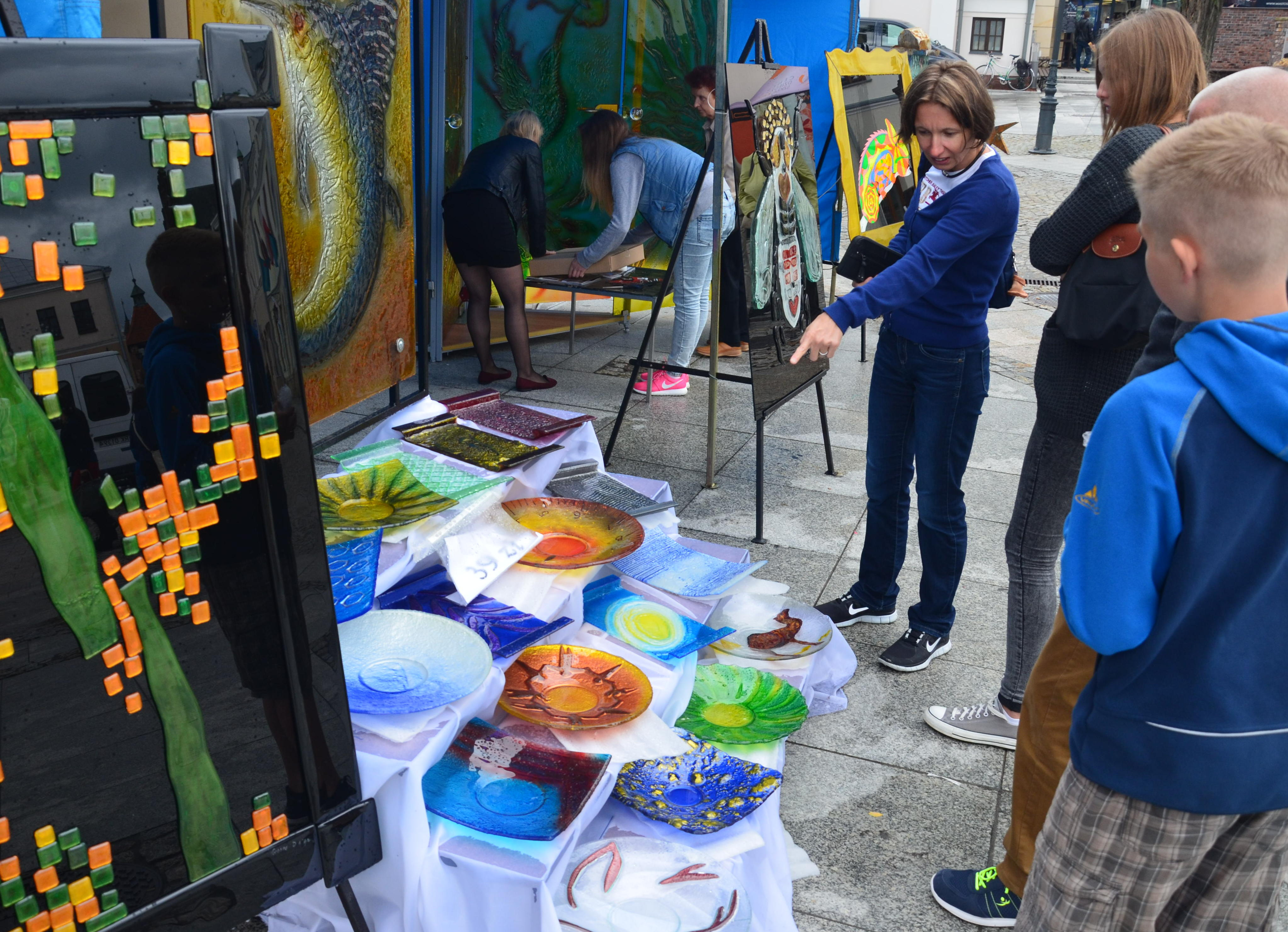 Glas in Krosno